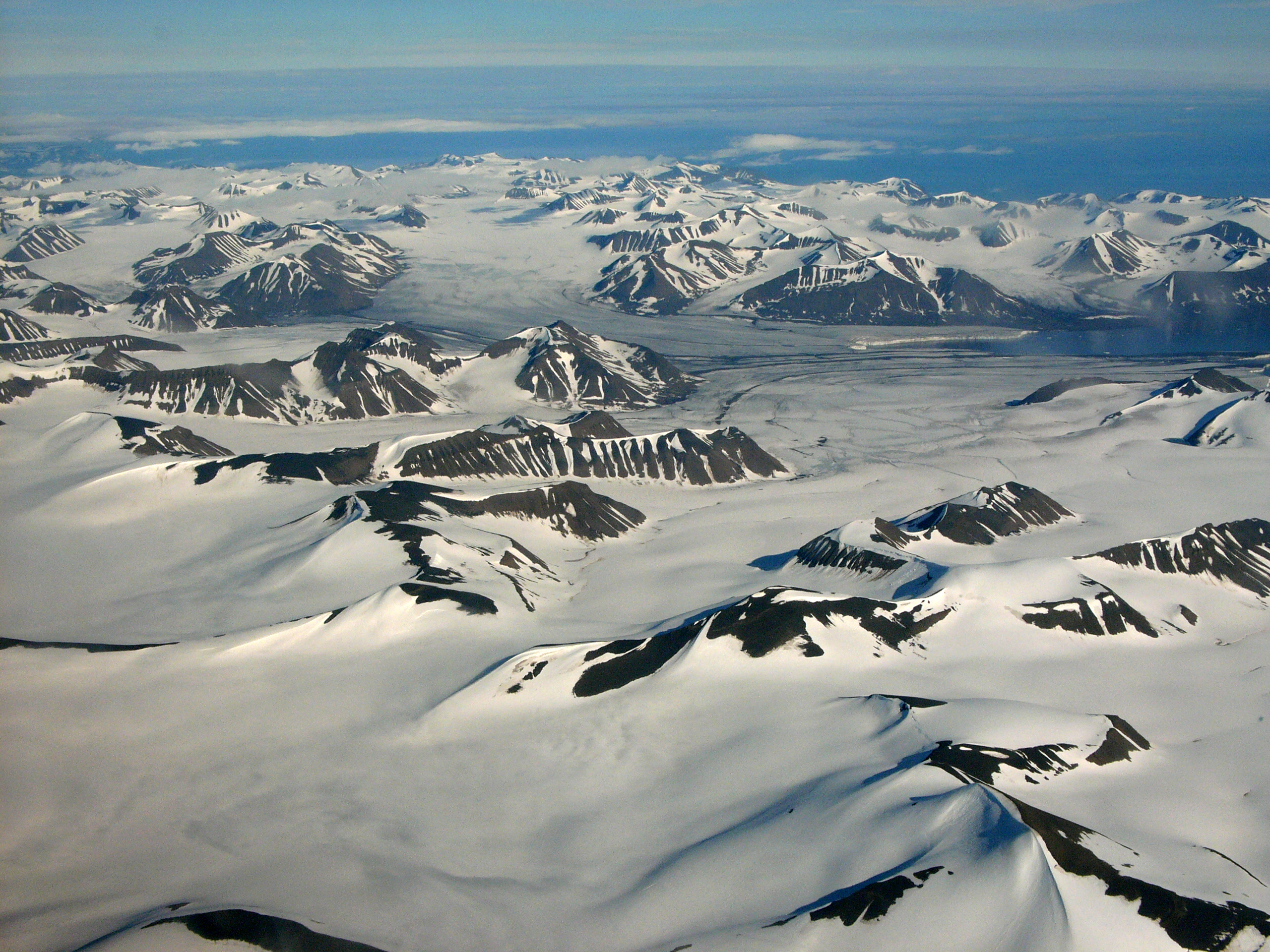 Spitzbergen, view from plane during approach for landing. (User:Bjoertvedt: Seen from west towards east, this is definitely Kvalvågen with Strongbreen on 77*30'N - 17*30'E.)